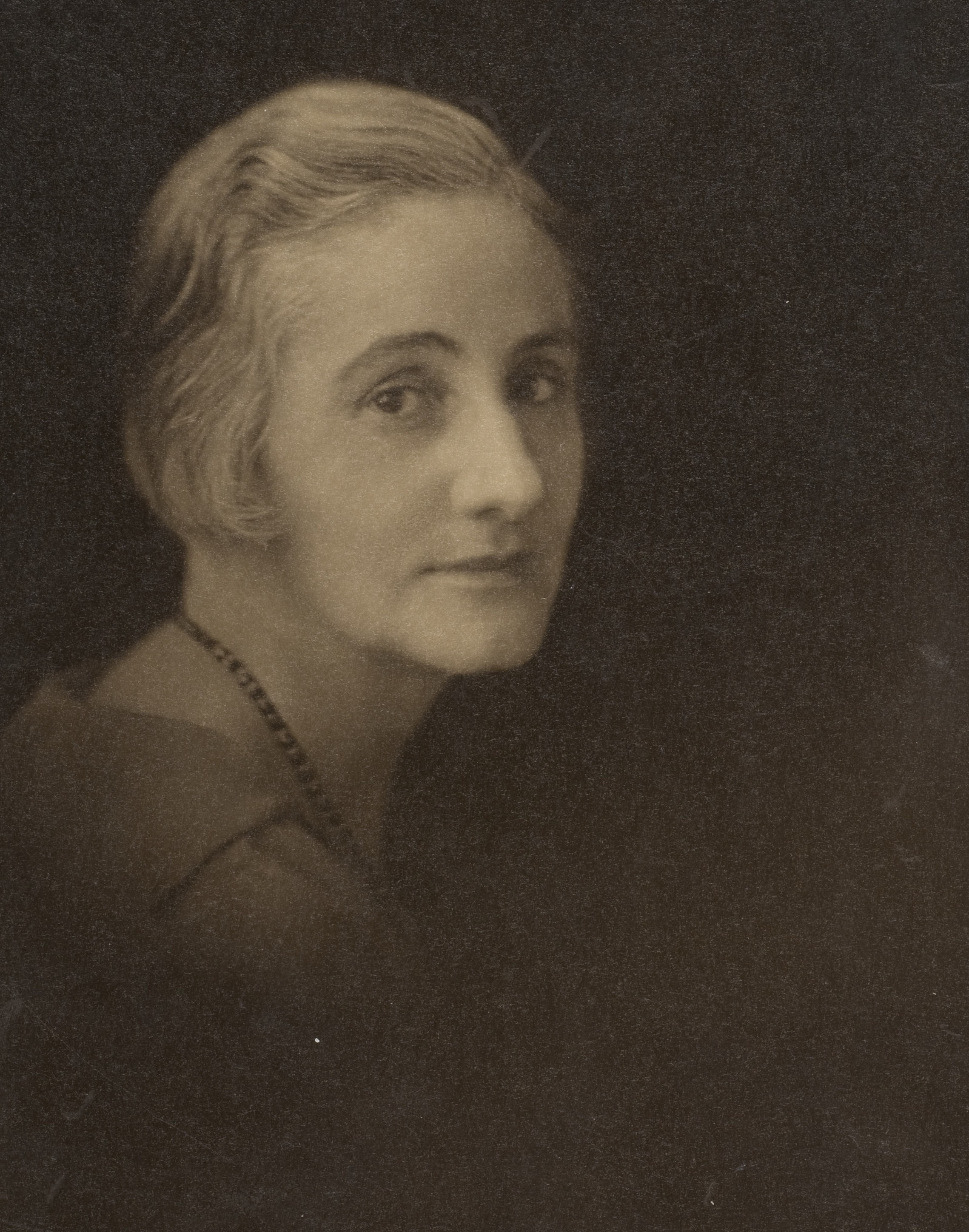 Format: Silver gelatin photoprint. Notes: Katharine Susannah Prichard (1883-1969) was an Australian journalist and writer. Find more detailed information about this photograph: .au/item/itemDetailPaged.aspx?itemID=431848. Search for more great images in the State Library's collections: .au/search/SimpleSearch.aspx. From the collection of the State Library of New South Wales